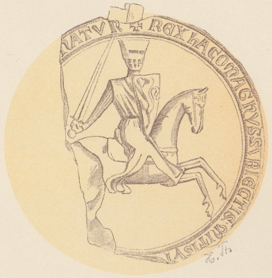 Seal (reverse) of King Haakon IV Haakonsson of Norway, dated 1247/48, Oslo. Text: "✠ REX HACO MAGNUS SVBIECTIS : MITIS VT [agnvs : ivstis letatur : inivstis ense mi]NATVR". (Translation: King Haakon the Great, kind as the lamb towards the subversive, taking rejoice in justice, threatening the unjust with sword.) Size: 93 mm.